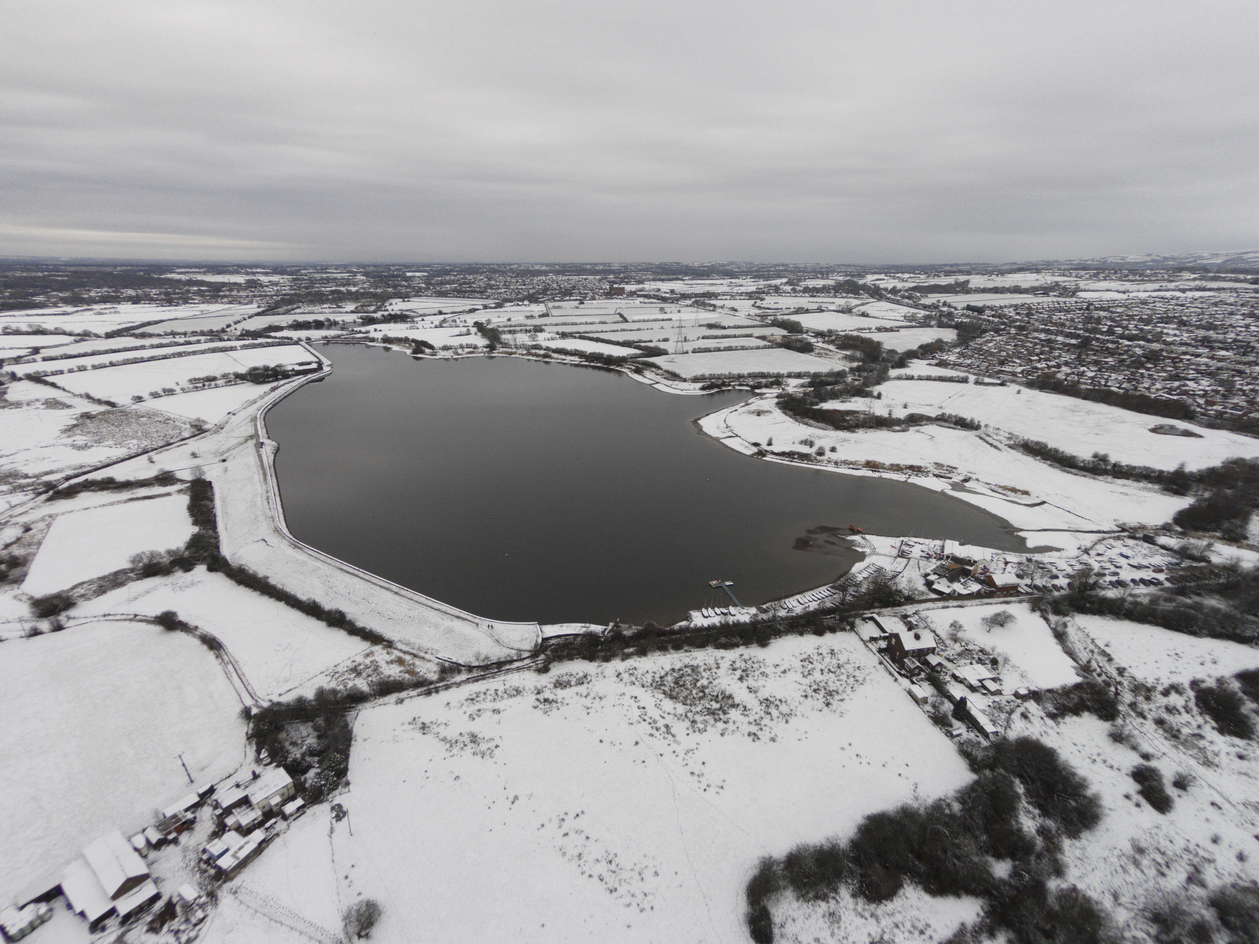 Aerial view on a snowy day, from the northeast looking southwest.